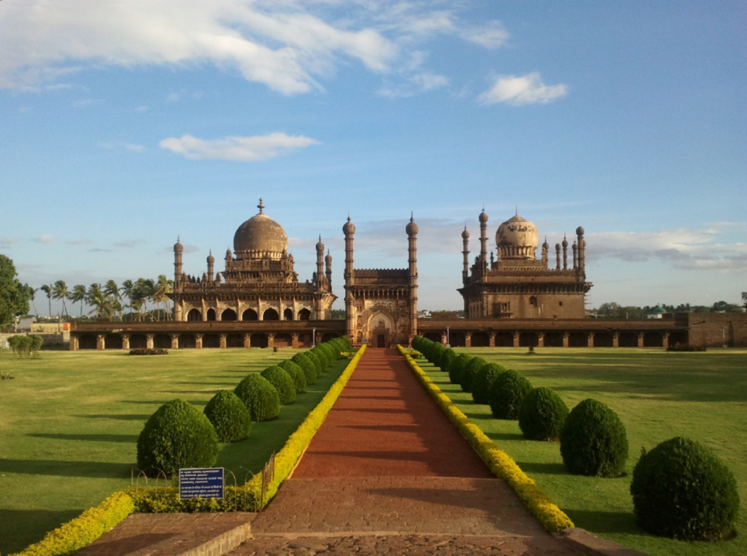 Tomb of Ibrahim Adil Shah II in Bijapur, Karnataka